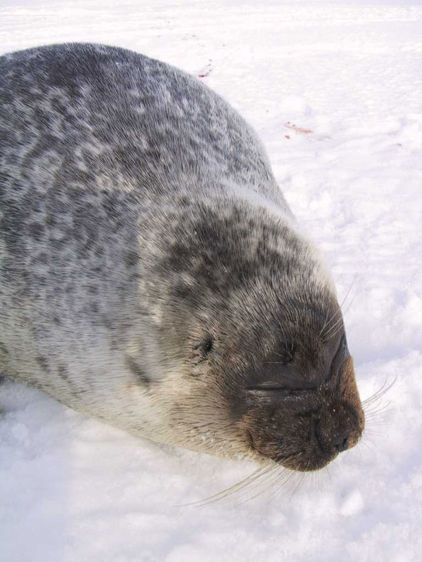 Ringed seal (Phoca hispida) portrait